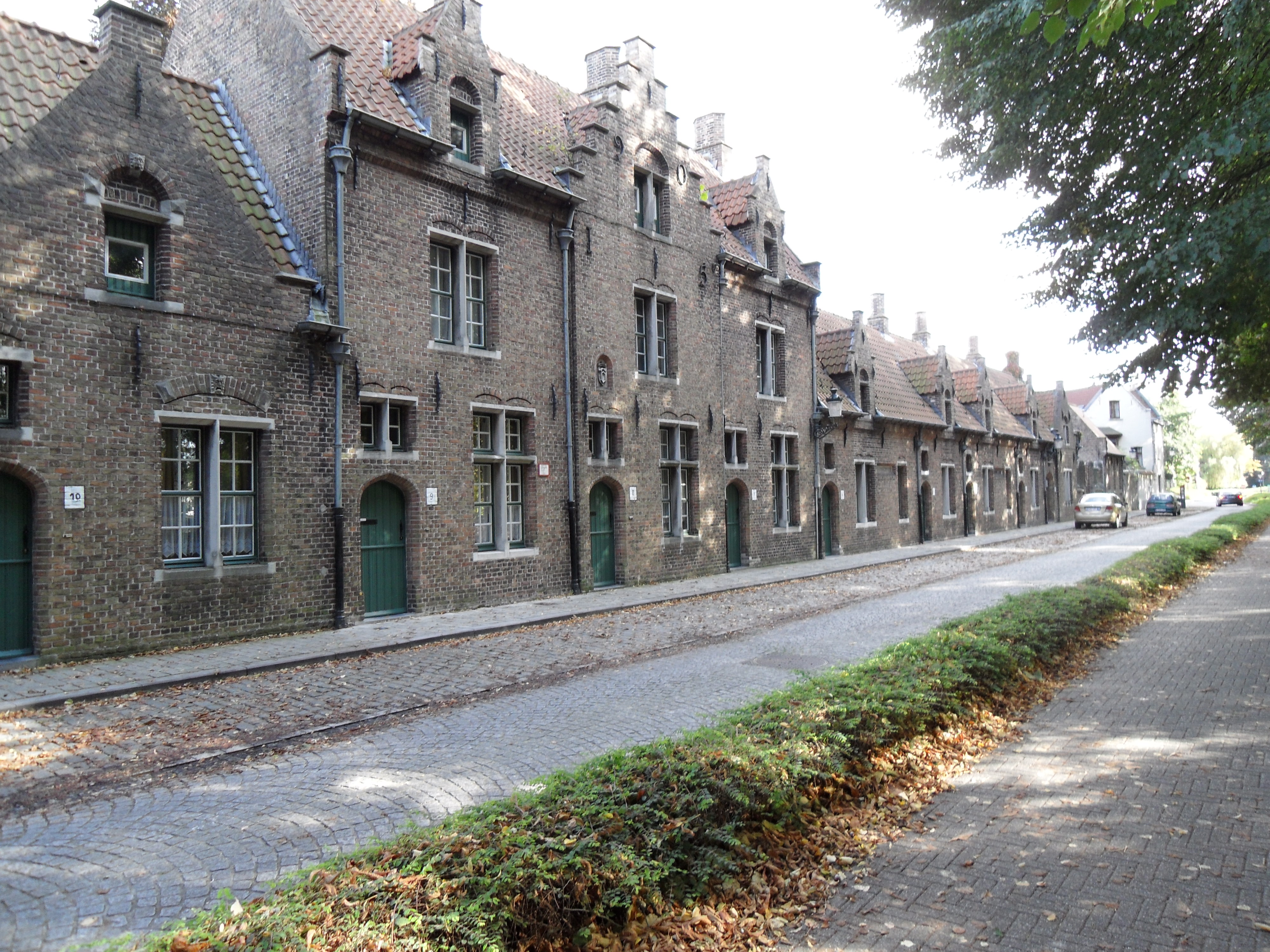 Consciencelaan.